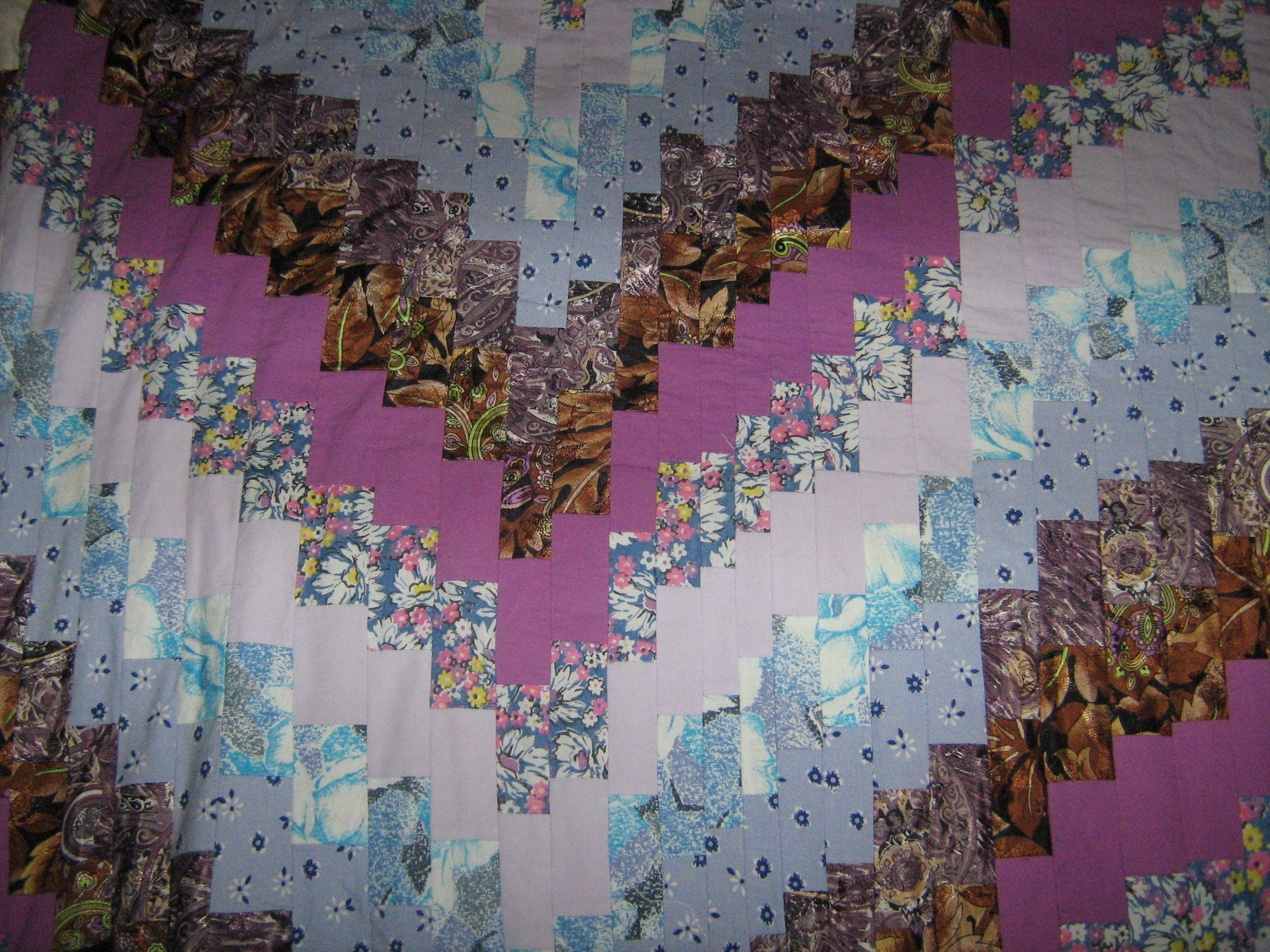 "Bargello" patchwork pattern using print and solid fabrics